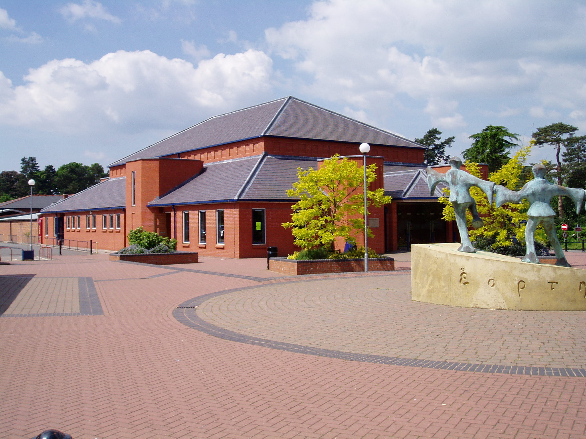 G N Frykman, private photograph